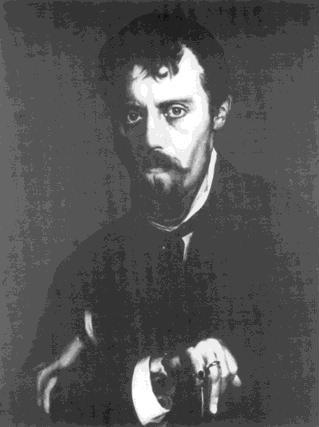 Laza Lazarević